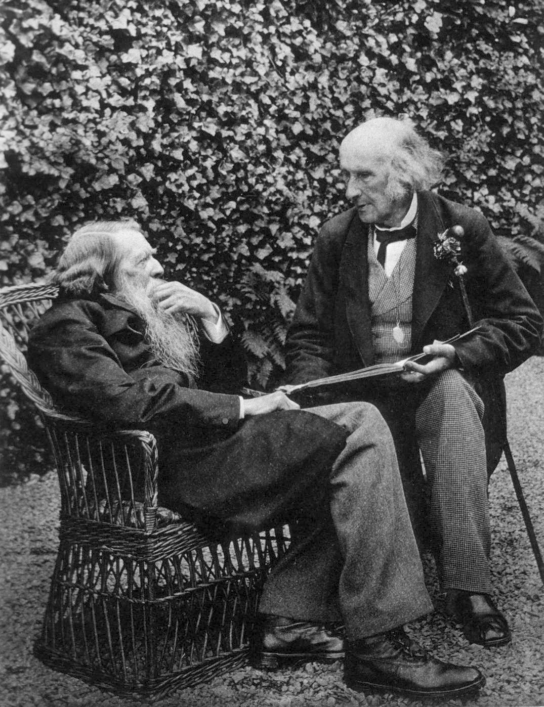 John Ruskin (left) and Sir Henry Acland (right)